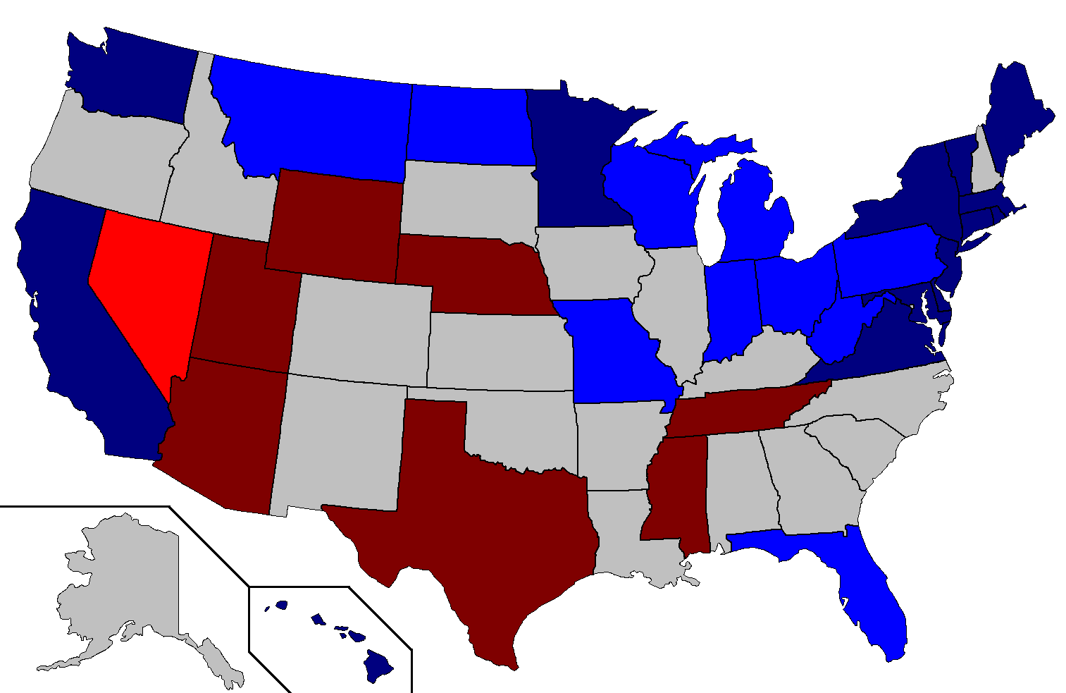 Map of the U.S. States showing the results of the 2016 presidential election and the party of the incumbent senator before the 2018 elections. Clinton-Democratic Senator Trump-Democratic Senator Trump-Republican Senator Clinton-Republican Senator No election